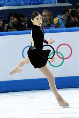 Yuna Kim 2014 Olympic Free Skating